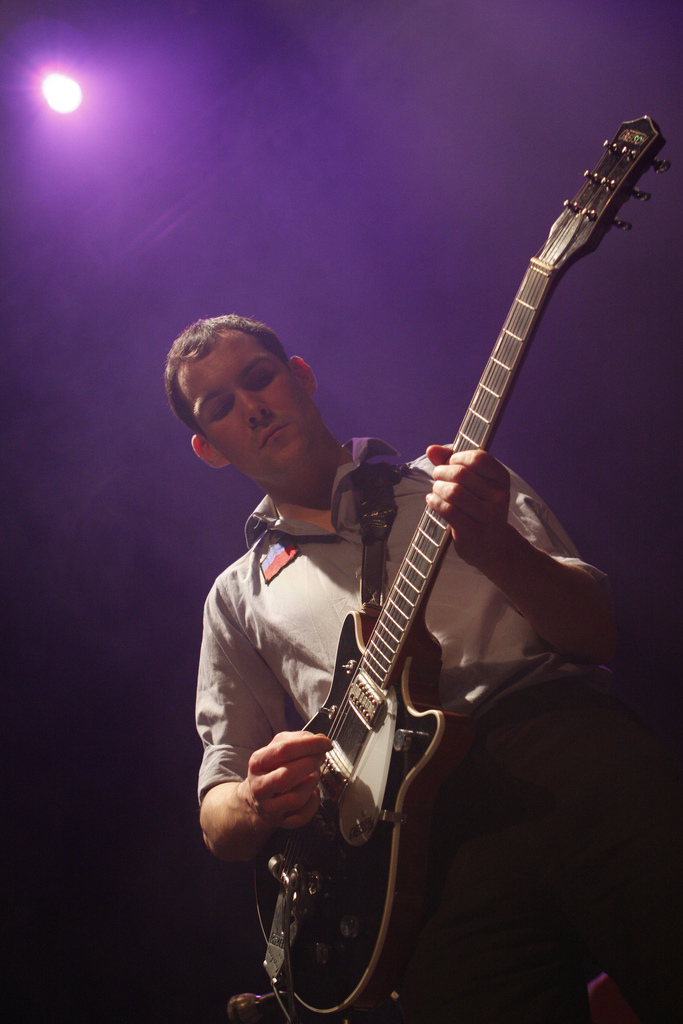 Martin Wood of British Sea Power (website) at Le Café de la Danse - Paris XIème - February 10, 2008 Sur l'aimable invitation de Beggars France